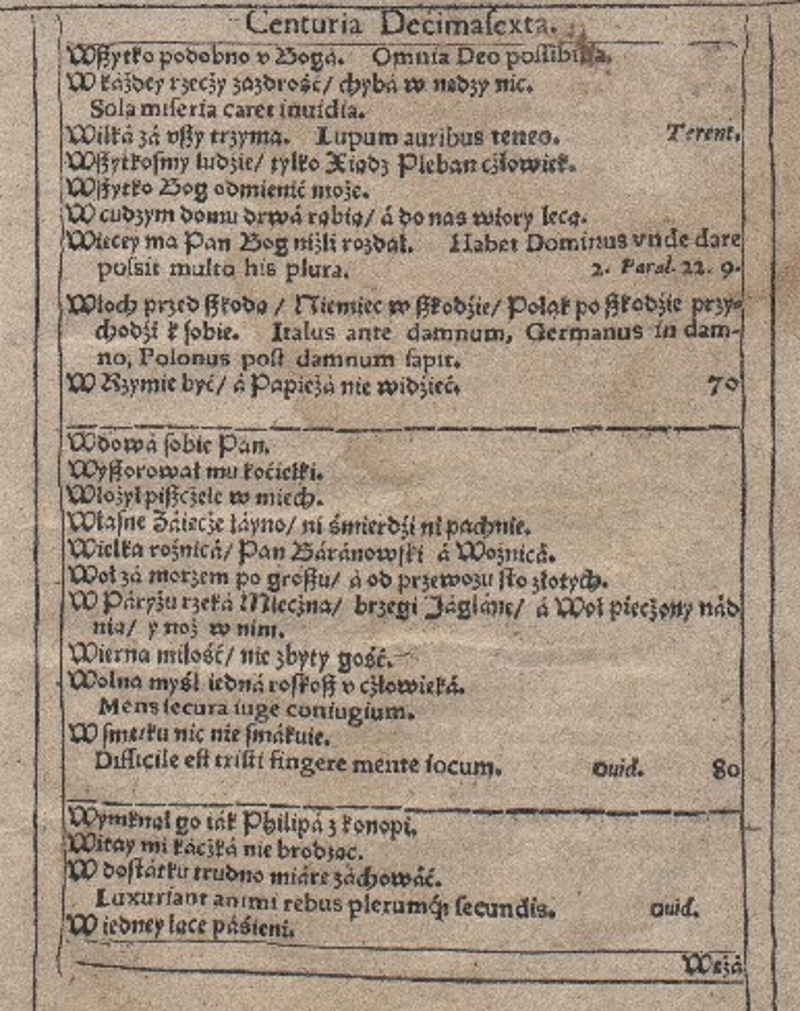 Salomon Rysiński, "Proverbiorum Polonicorum a Solomone Rysinio collectorum centuriae decem et octo", Lubecae ad Chronum : in Officina Petri Blasti Kmitae, 1618.